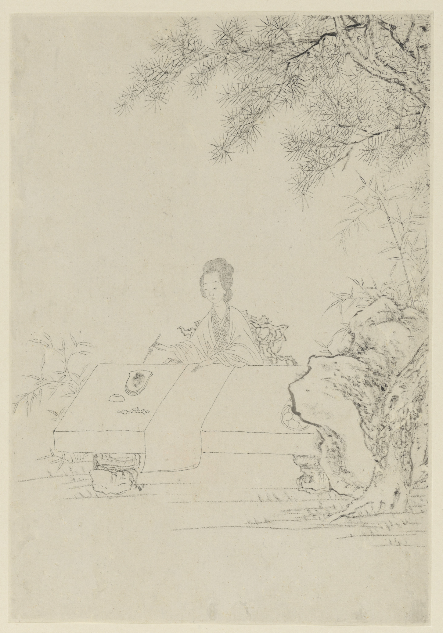 This depicts the calligrapher Wei Shuo (衛鑠).